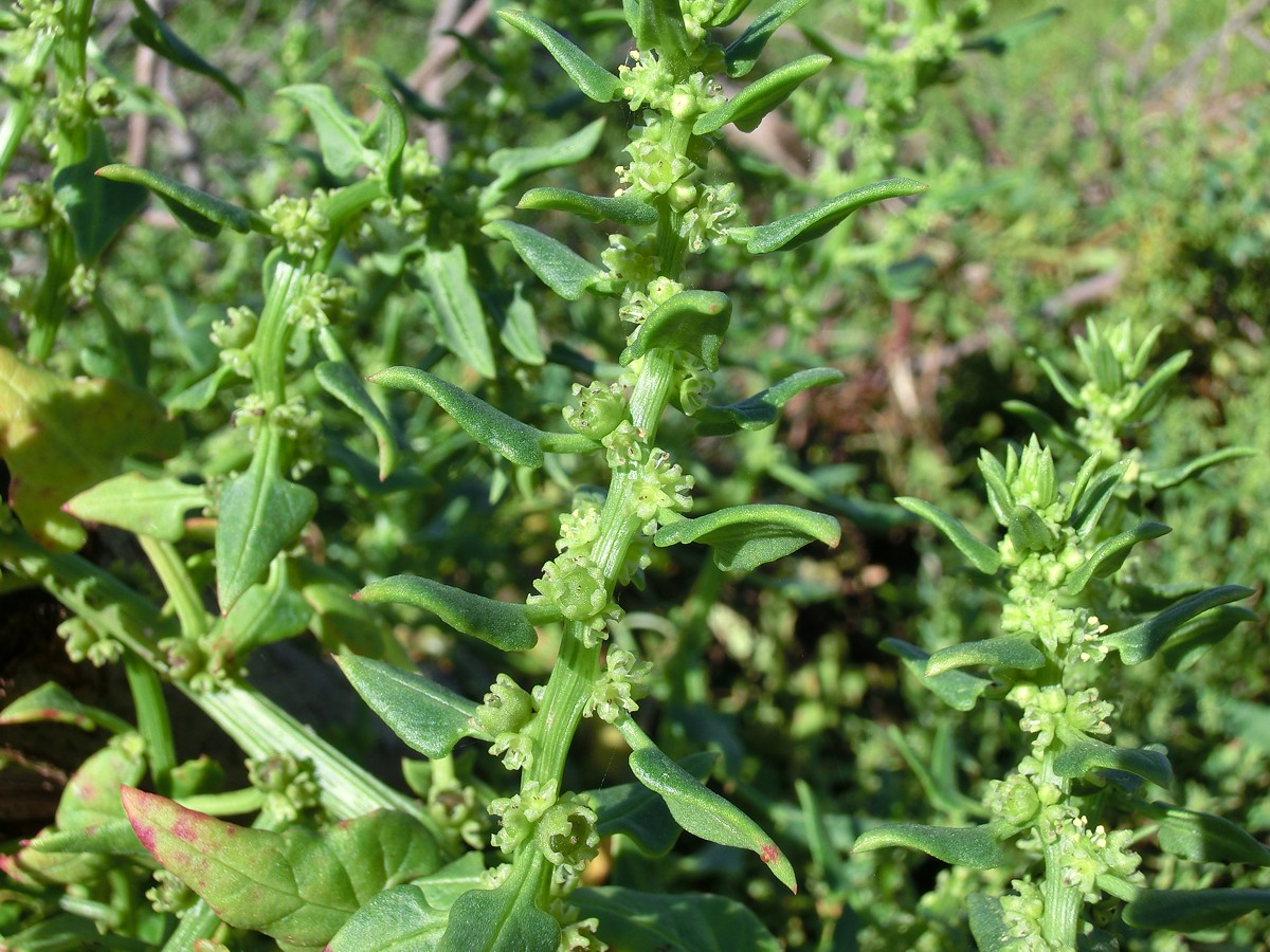 Patellifolia procumbens. Tenerife, Puerto de la Cruz, ruderal site with Pennisetum setaceum, ca. 70 m above sea level.